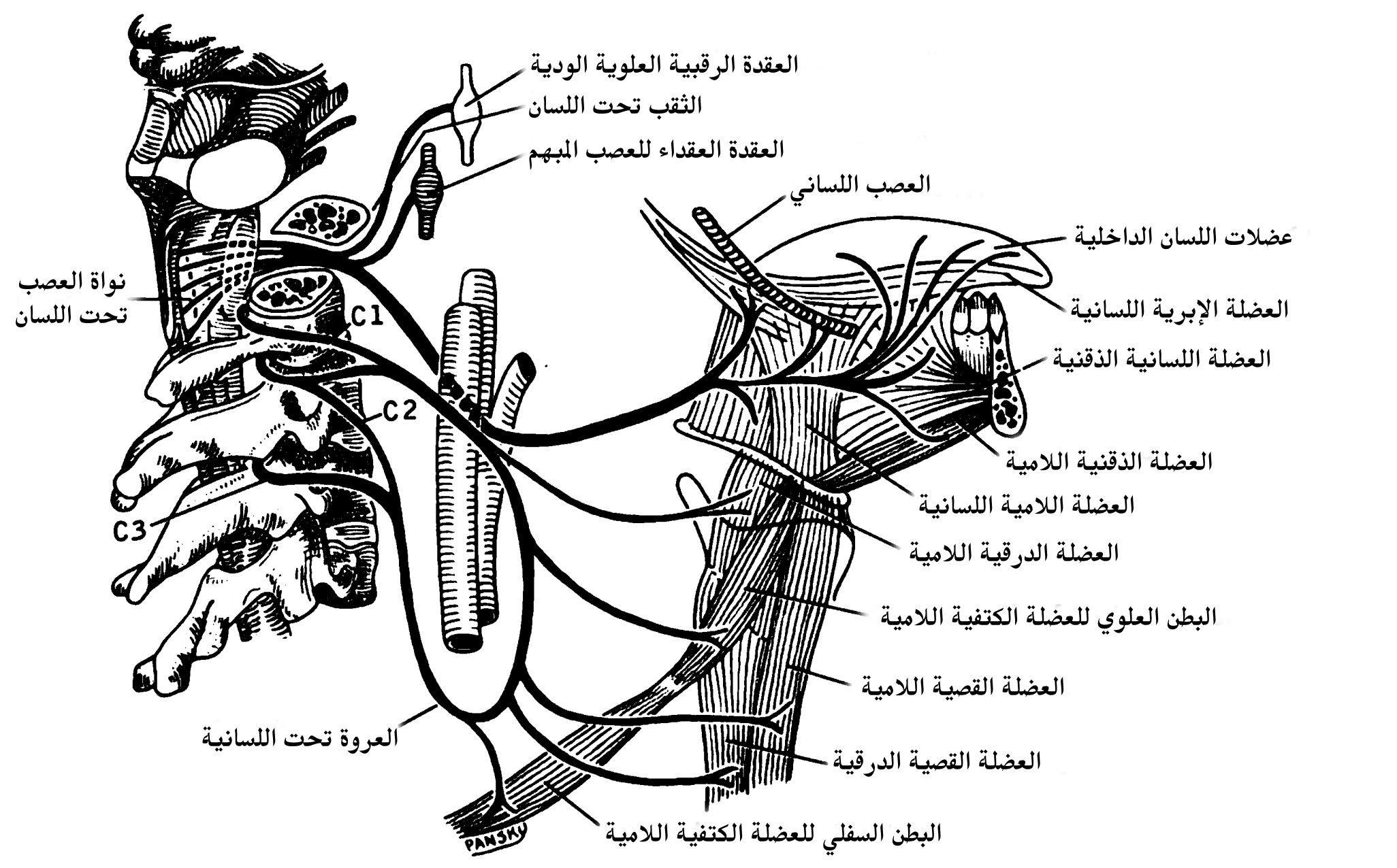 Anatomical illustration of the human nervous system from the 1960 book A functional approach to neuroanatomy